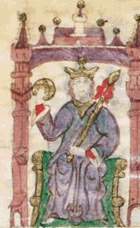 Liuva I (568–572)